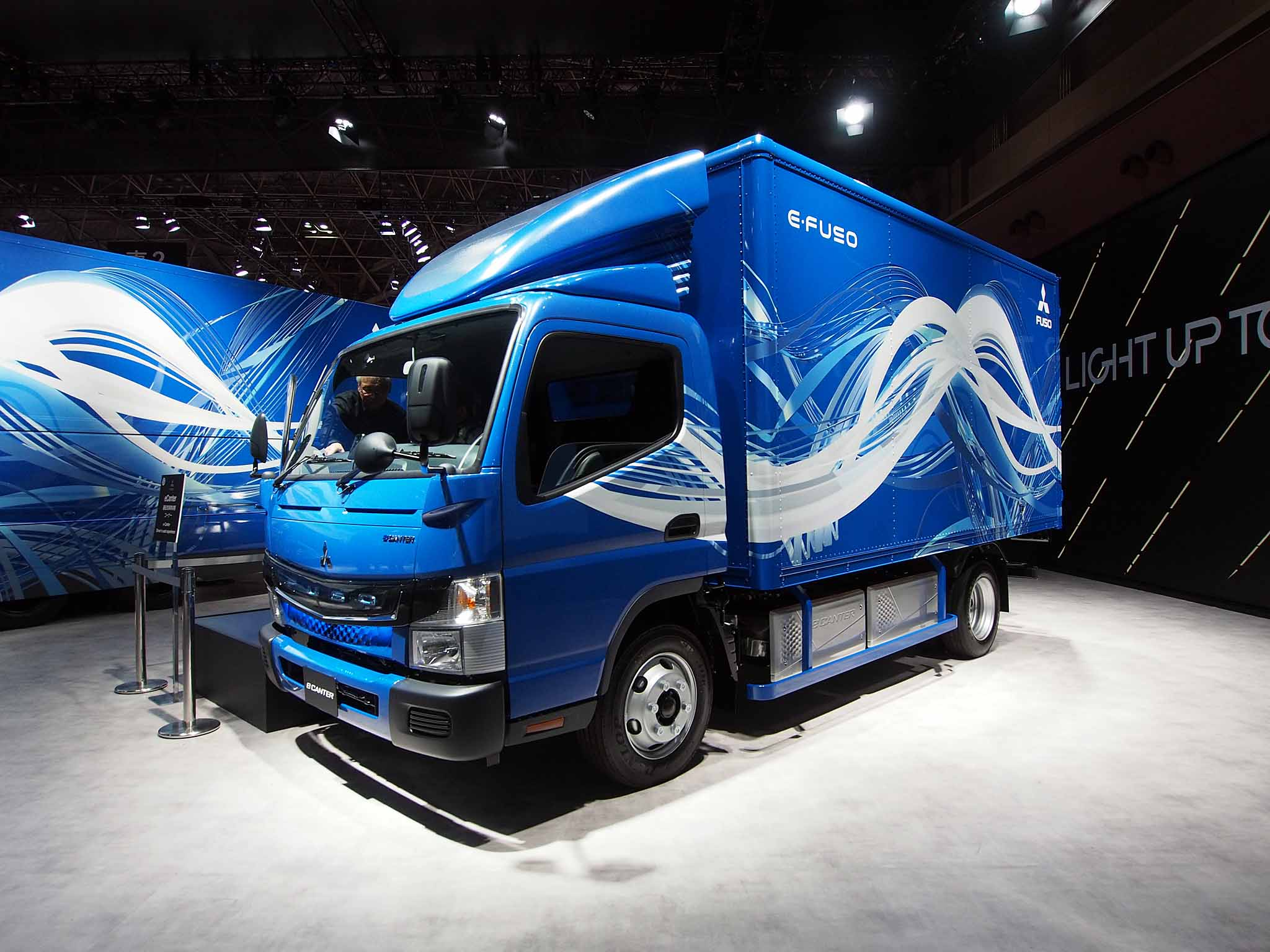 Fuso eCanter, electric vehicle based Canter. Displayed at Tokyo Motor Show 2017